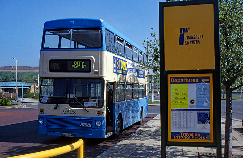 Andrews MCW Metrobus DR102/18 at Meadowhall Interchange. Fleet number 1733, registration number GOG 160W. Scanned from a Fujichrome 35mm slide.